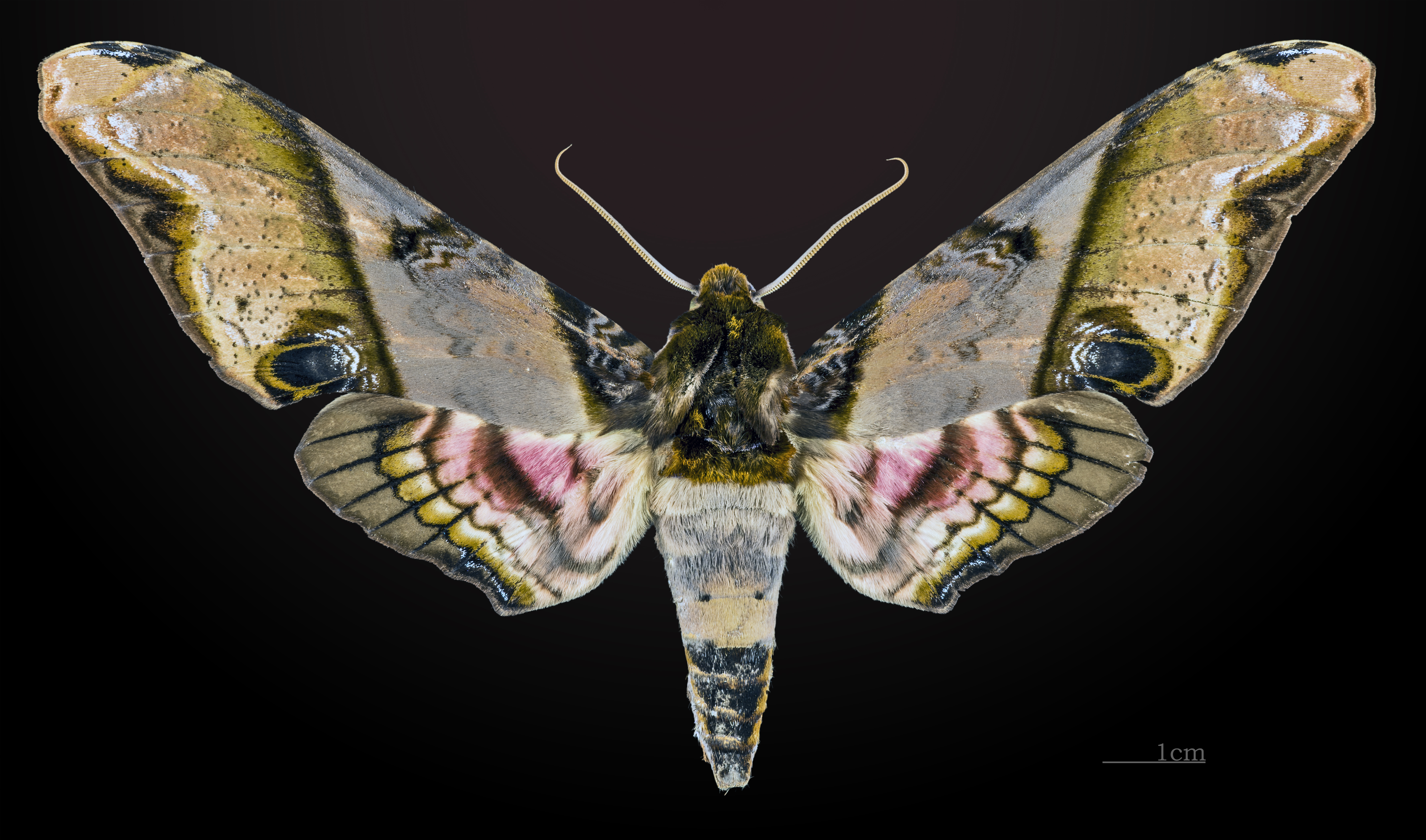 Amplypterus panopus - Dorsal side